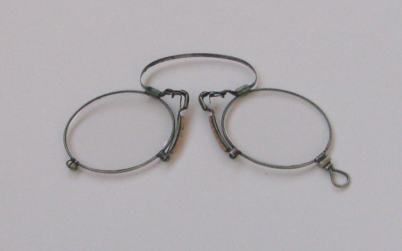 Pince-nez